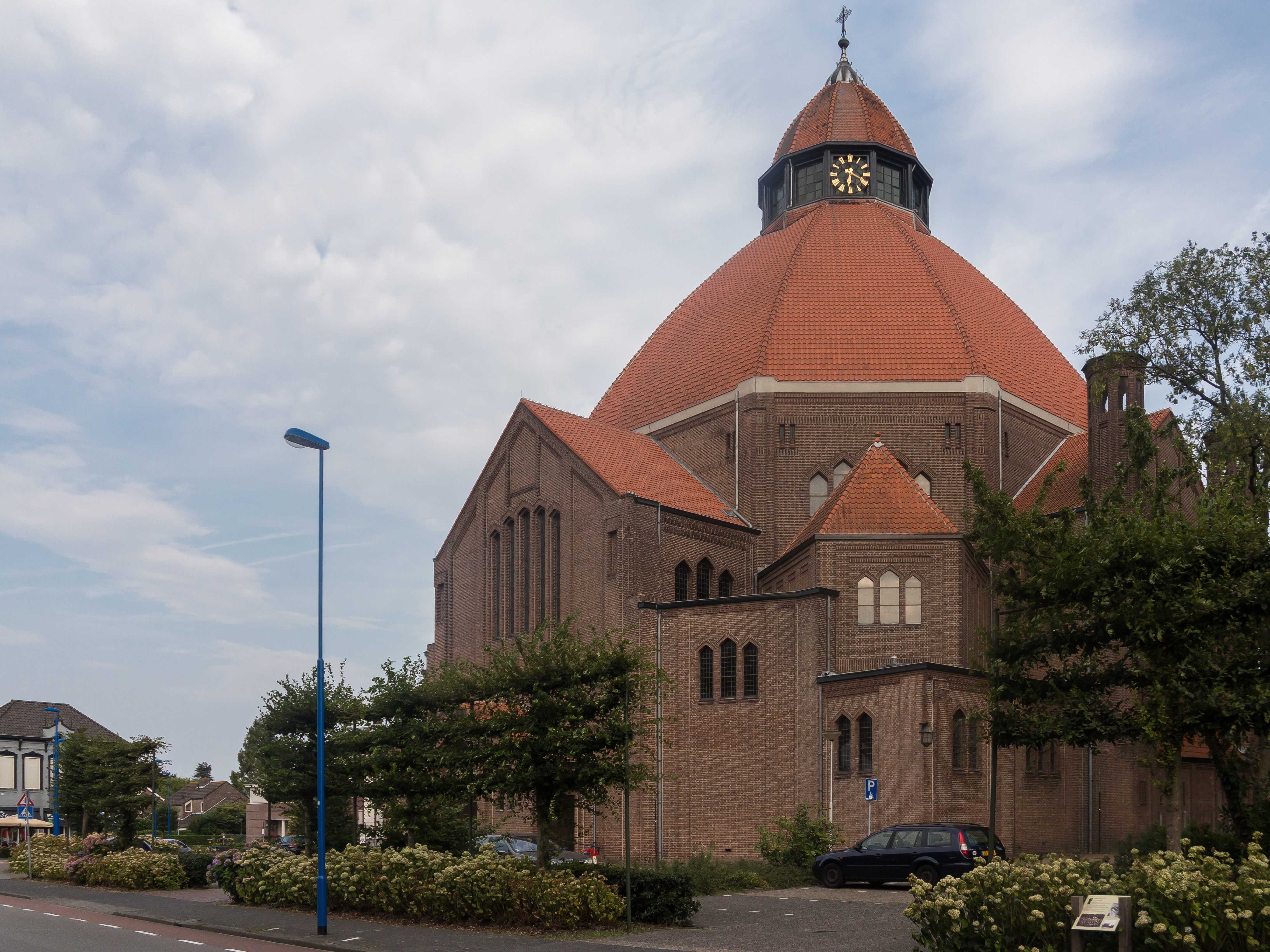 Dongen, church: de Sint-Laurentiuskerk